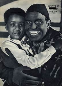 Image of Esther Jones (left) with a man in blackface (right), presumed to be Ernst Rolf, Gordon Stretton Jazz or Carlos Gardel.